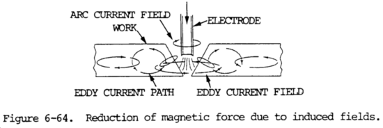 Eddy currents in an arc blow cross-section. KJ Cruz 02:13, 23 February 2011 (UTC)